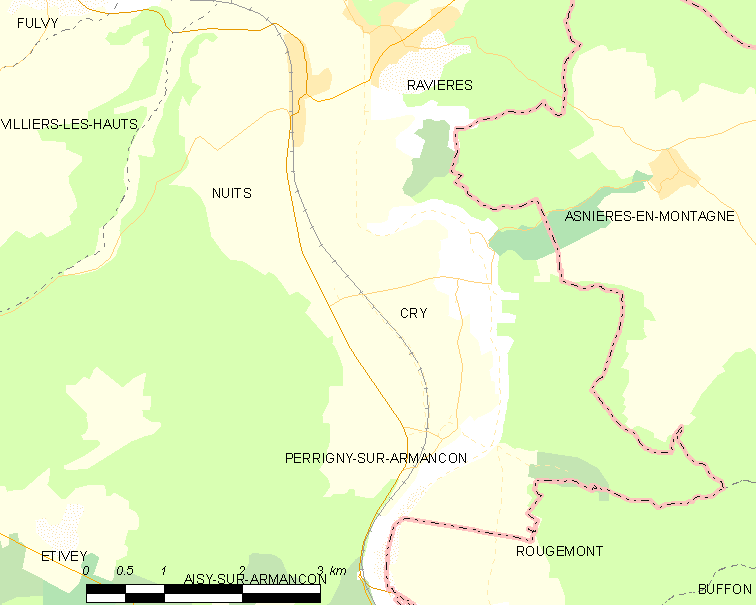 Map of French municipality Cry